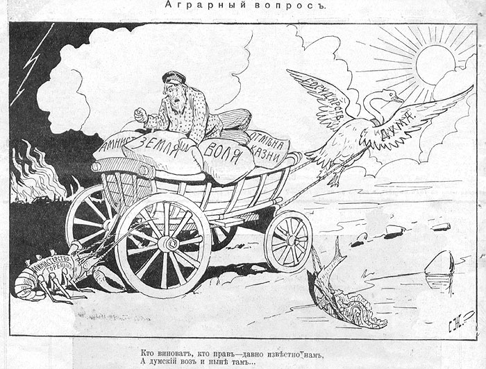 Political caricature